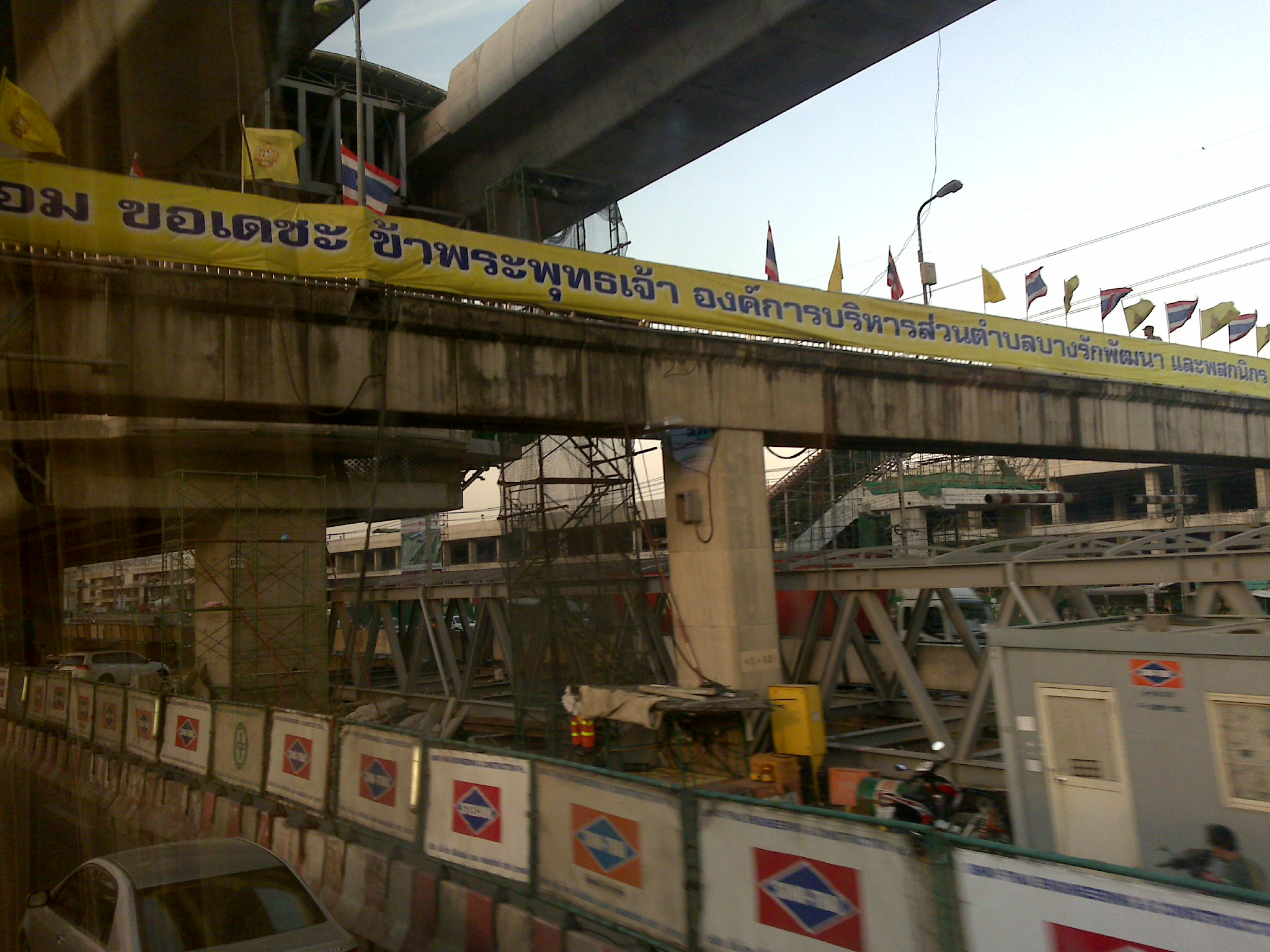 MRT Purple Line under construction on 20 December 2013 in Bangkok